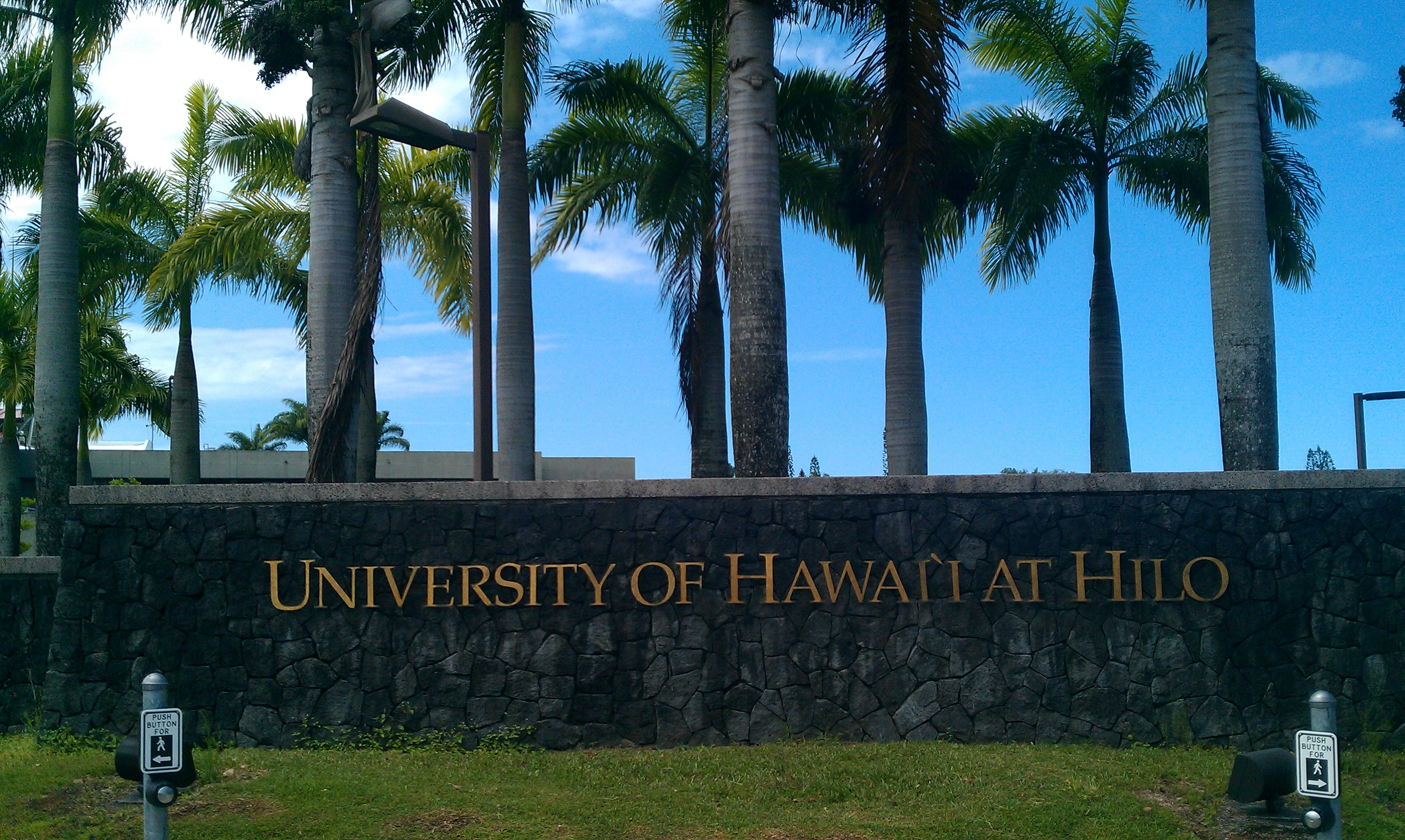 Main Entrance